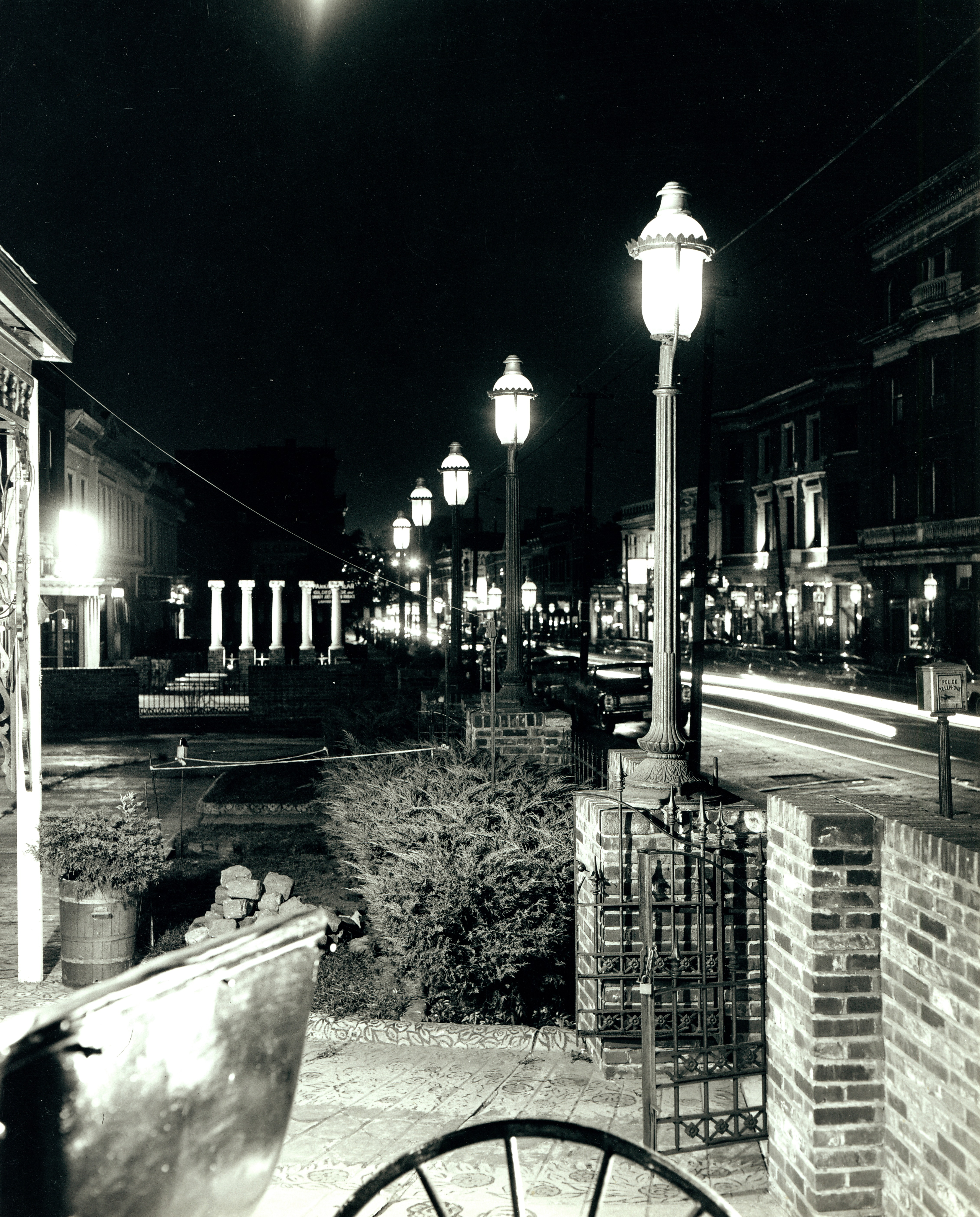 Olive East From Boyle, Gaslight Square. Photograph by Irv Shankman [Dorrill Photo], 1966. Missouri History Museum Photographs and Prints Collections. St. Louis Streets. N22390.